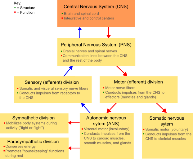 Diagram showing the divisions of the nervous system. Own work, based on information found in Marieb's Human Anatomy & Physiology, 7th ed. New York: Pearson (2007). ISBN:0805359095. somatic nerve system